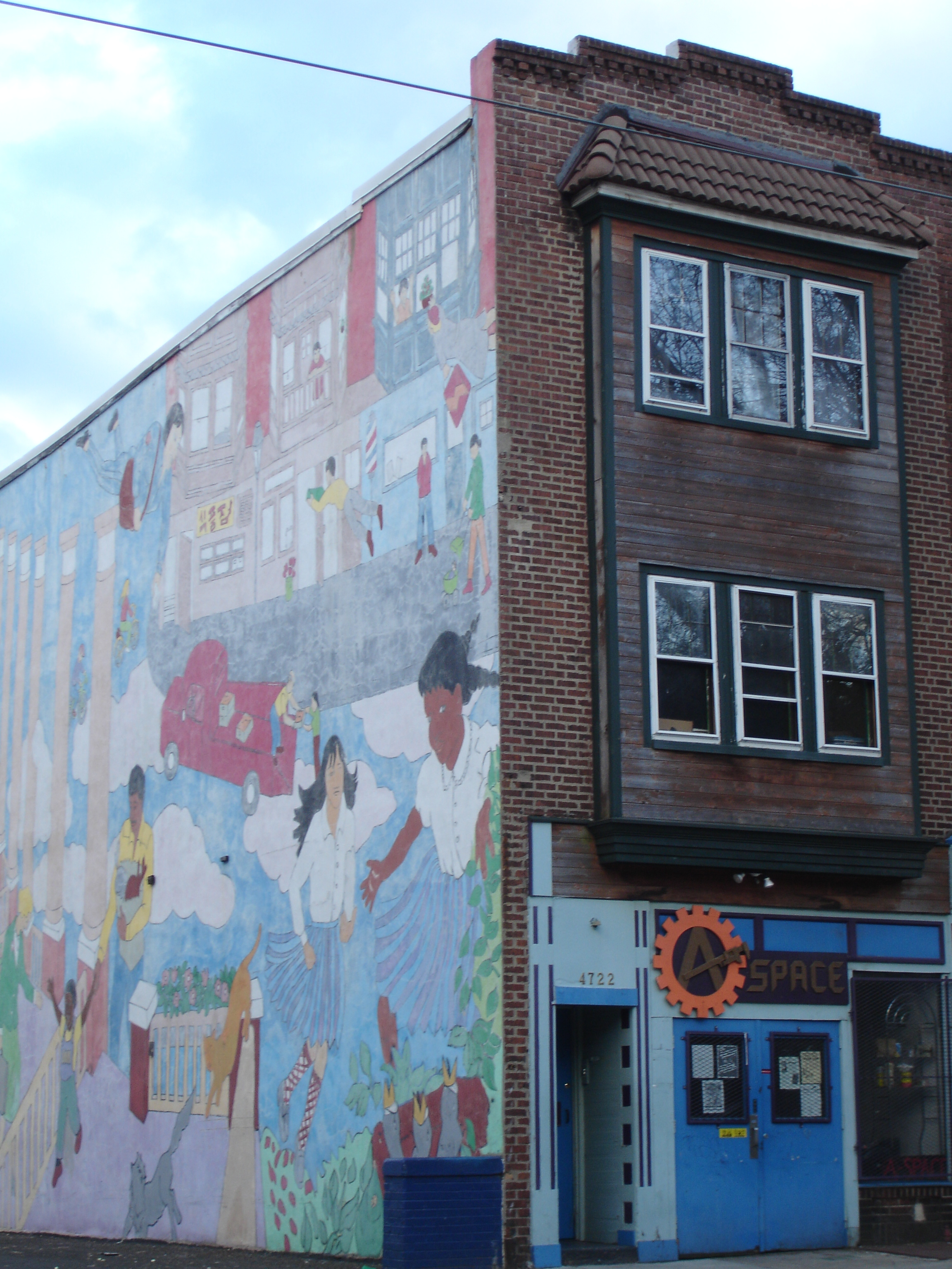 Photograph of the entire A-Space building on Baltimore Ave, Philadelphia PA|, including the two upstairs apartments.